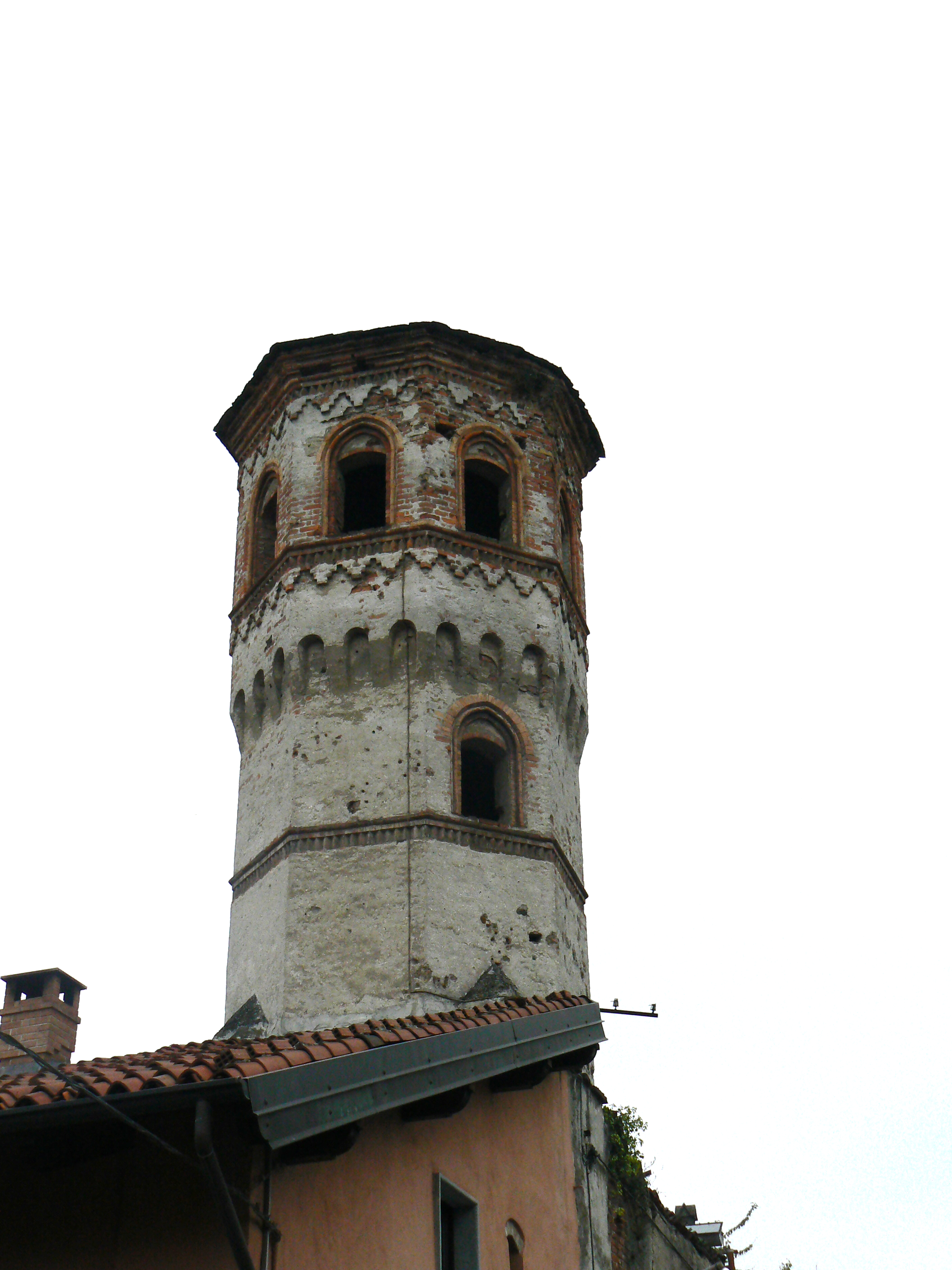 Torre dell'Orologio in Avigliana's historic center, Turin